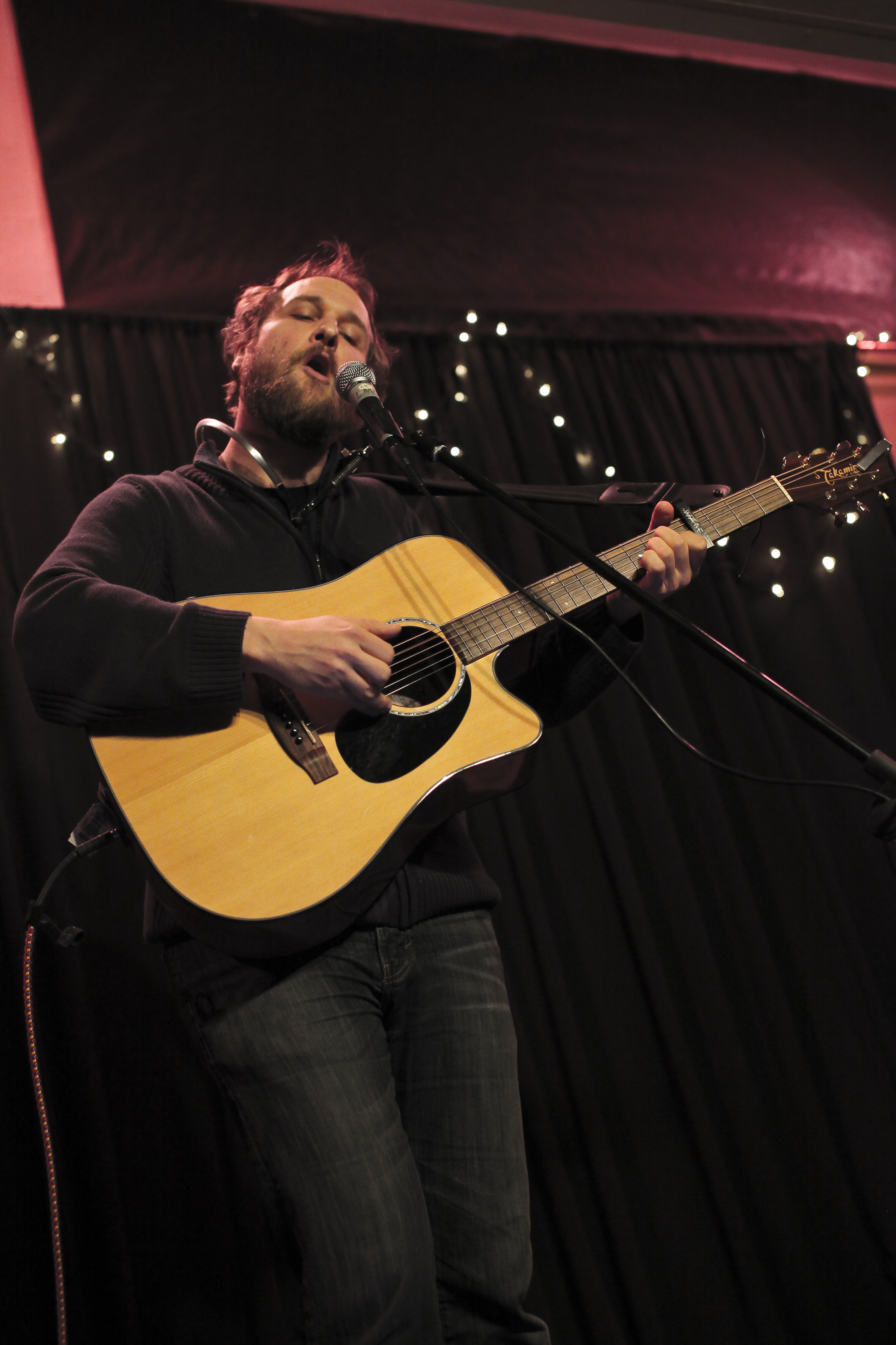 Craig Cardiff performing live at the London Music Club in London, Ontario, in November 2013. This photo was taken by Adam M. Dee of Subtle Solace Photo & Fine Arts (@SubtleSolaceArt).